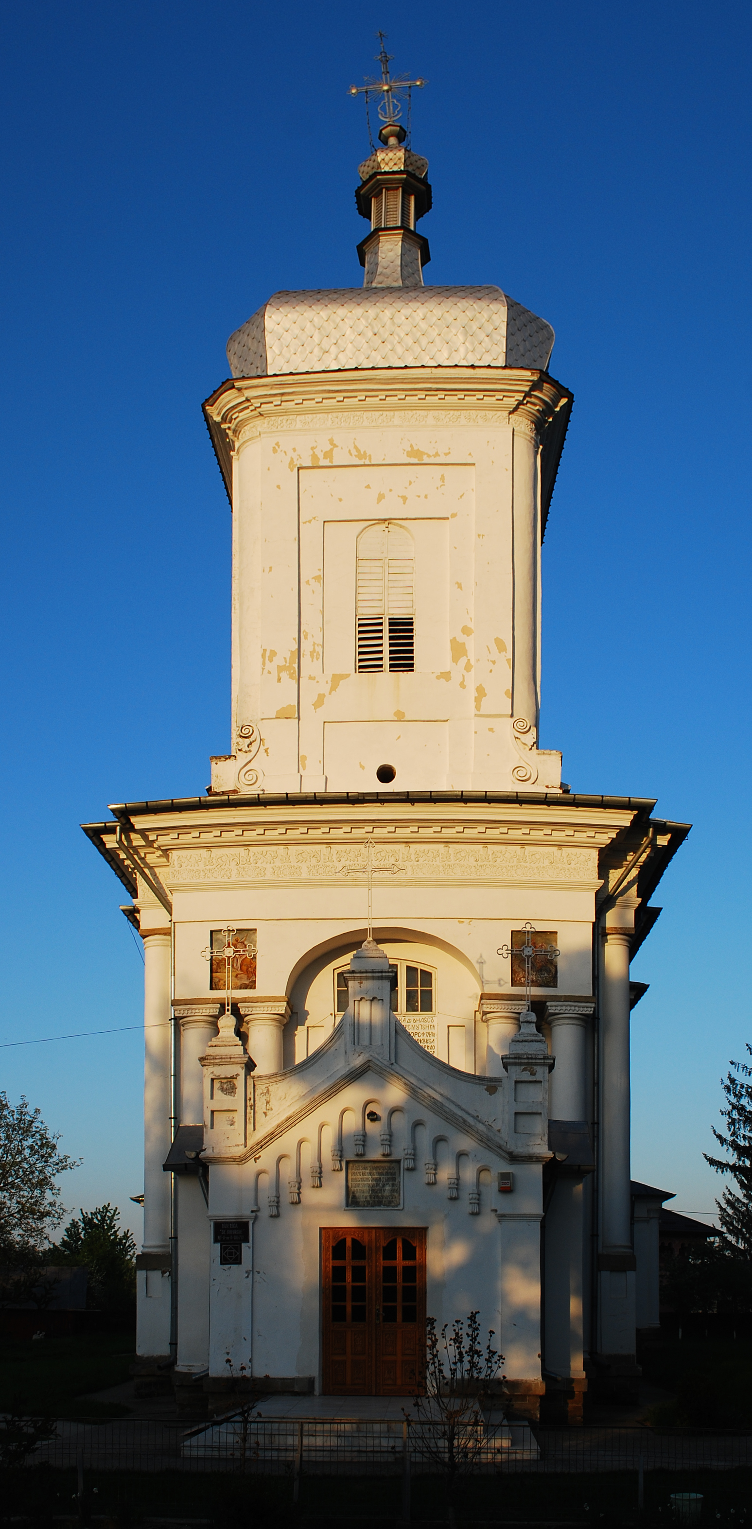 St. George church in Roman, Neamț County, RomaniaRomână: Biserica Sf. Gheorghe din Roman, județul Neamț, România